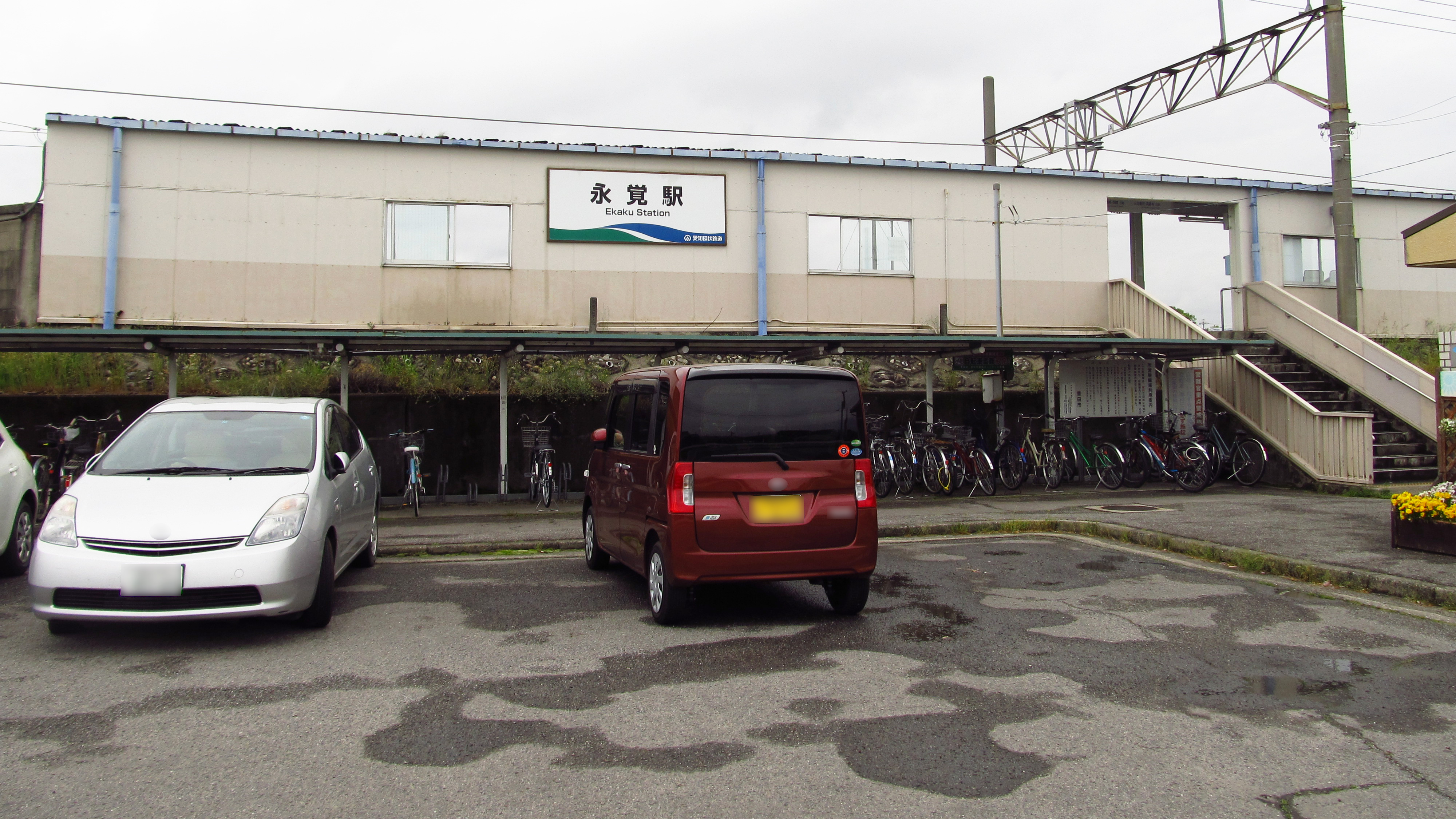 The entrance to Ekaku Station on Aichi Loop Line in Toyota city, Aichi prefecture, Japan